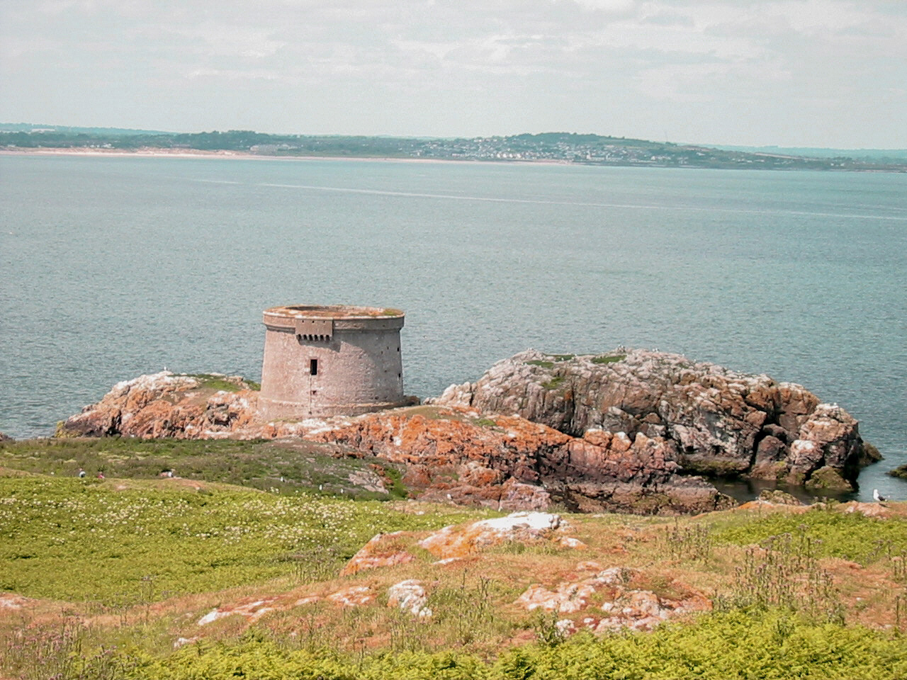 The Martello Tower on Ireland's Eye. Photo taken on Saturday May 28 2005 by Colm Rice.